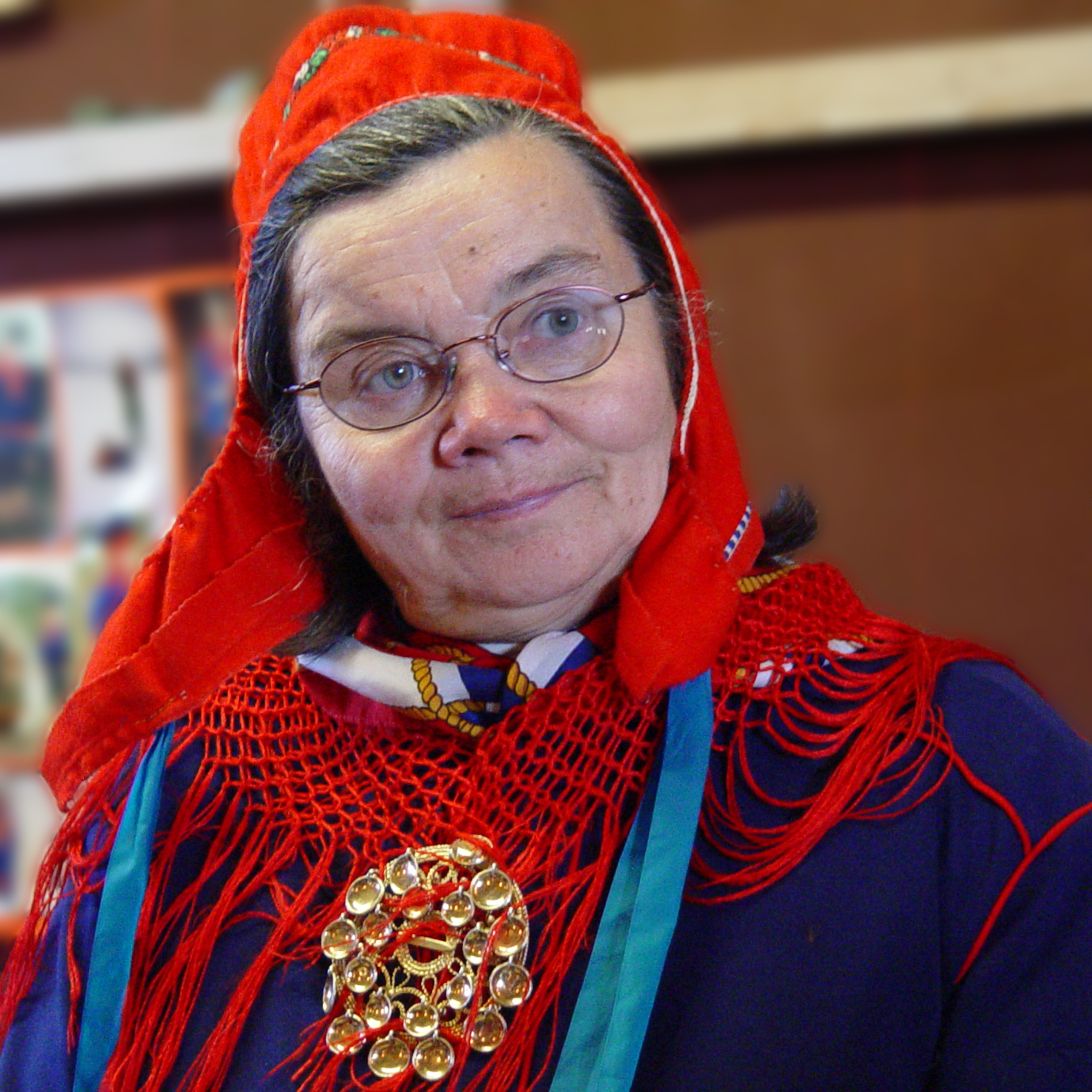 Sami wearing her traditional costume.